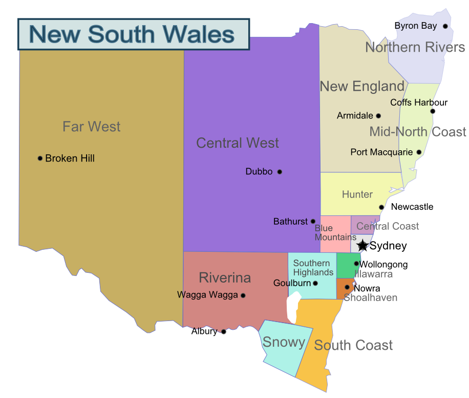 Map of New South Wales regions.